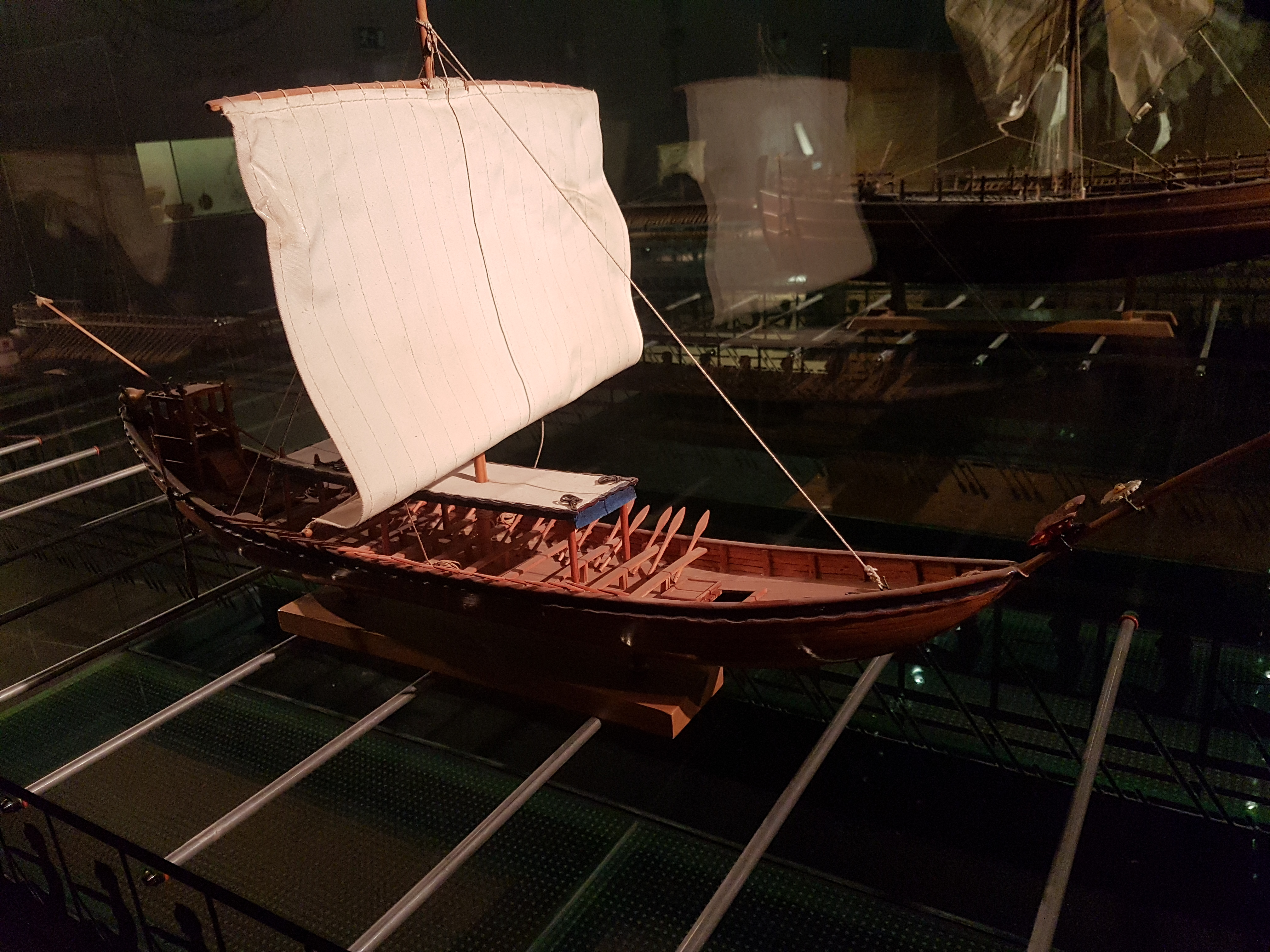 Thera ship, Thera, 16th century BC (modelled after wall painting found in Akrotiri, Thera, Greece). Thessaloniki Technology Museum